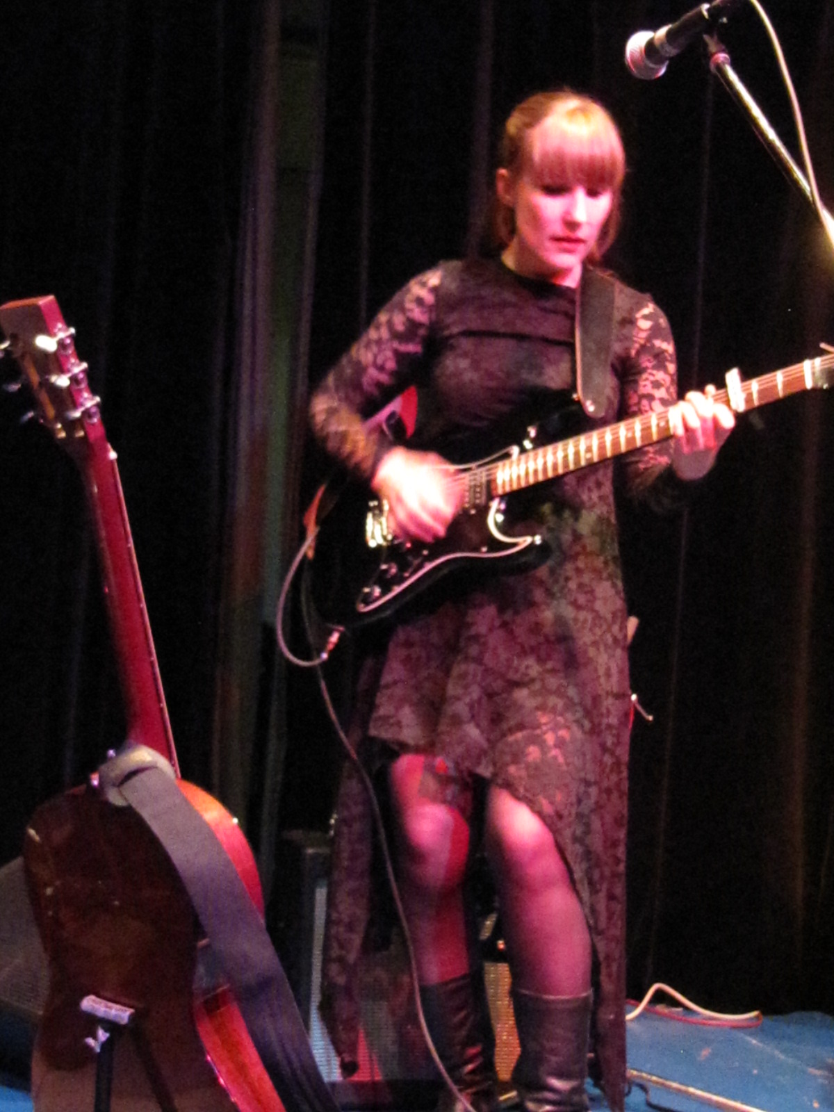 Emily Jane White playing at the Laboratorium, Stuttgart, 2015